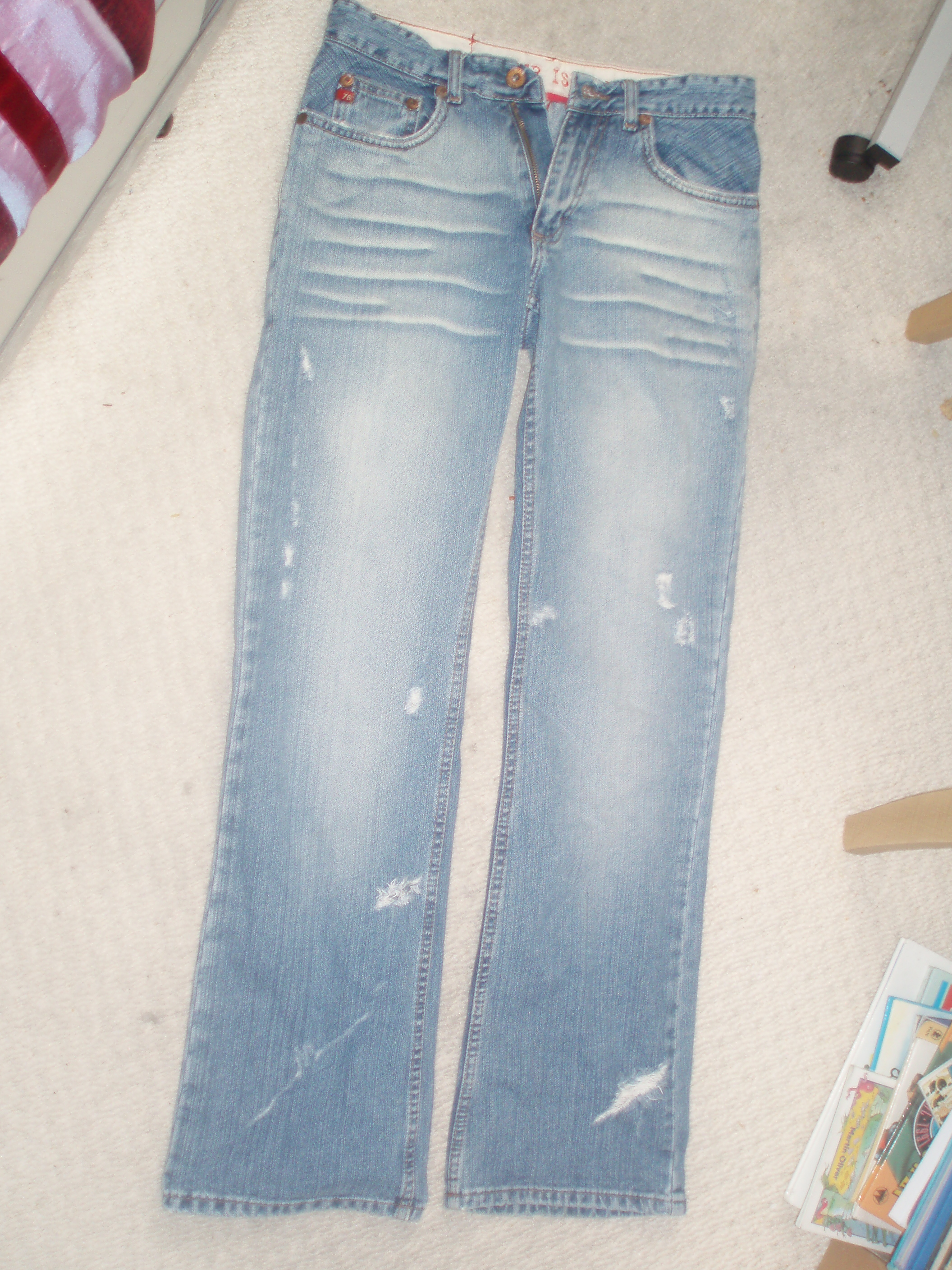 River Island designer jeans 36 leg